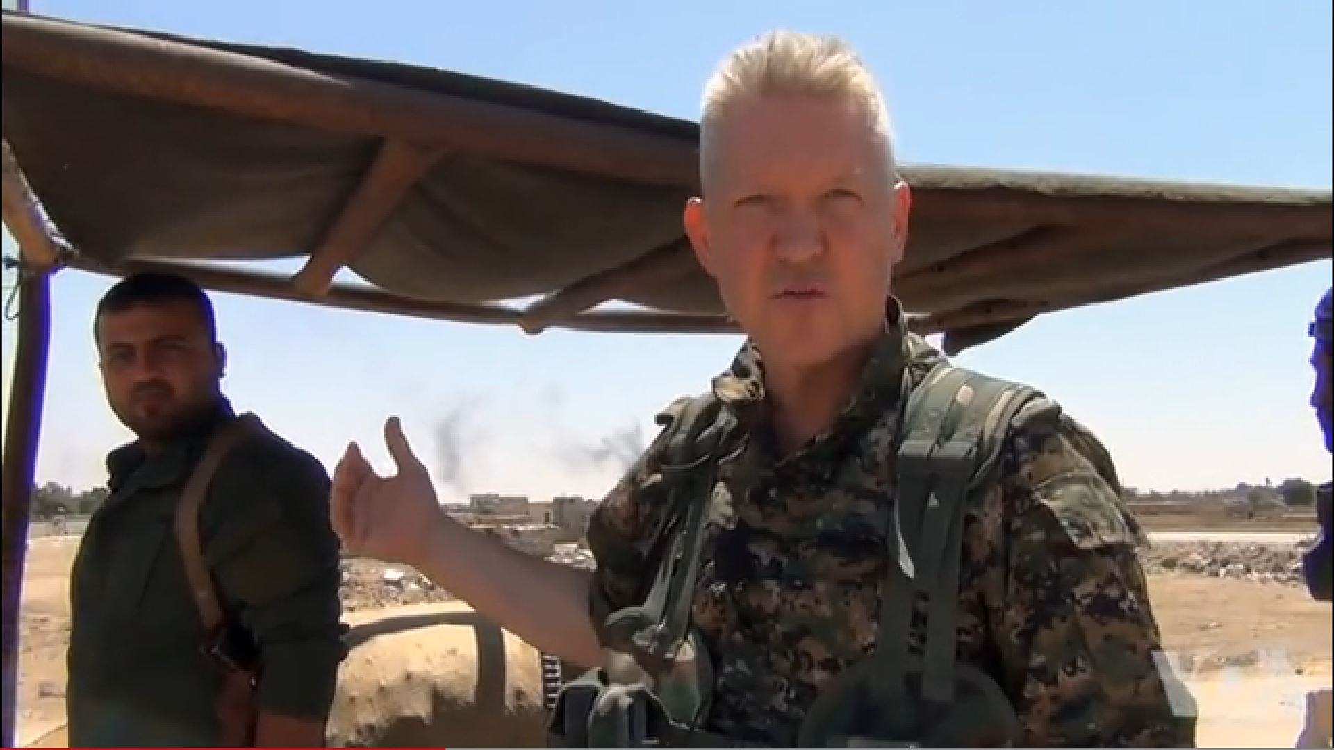 Title of video: "YPG Volunteer Michael Enright on Frontline"